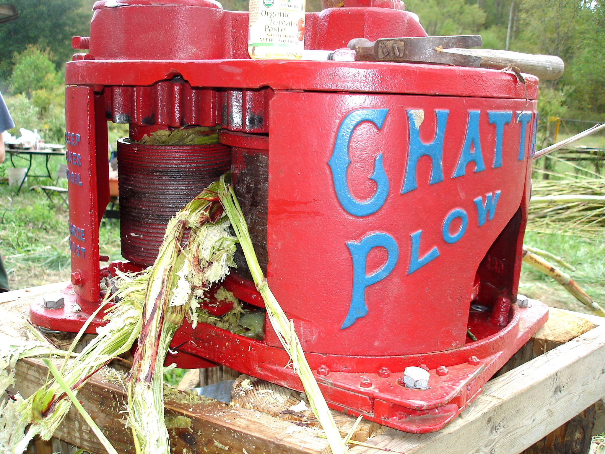 restored sorghum cane juicer, close-up, North Carolina